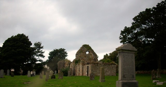 Old St. Andrews Kirk, Gullane